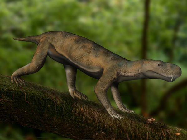 Arctognathus curvimola, Late Permian of South Africa. Digital.